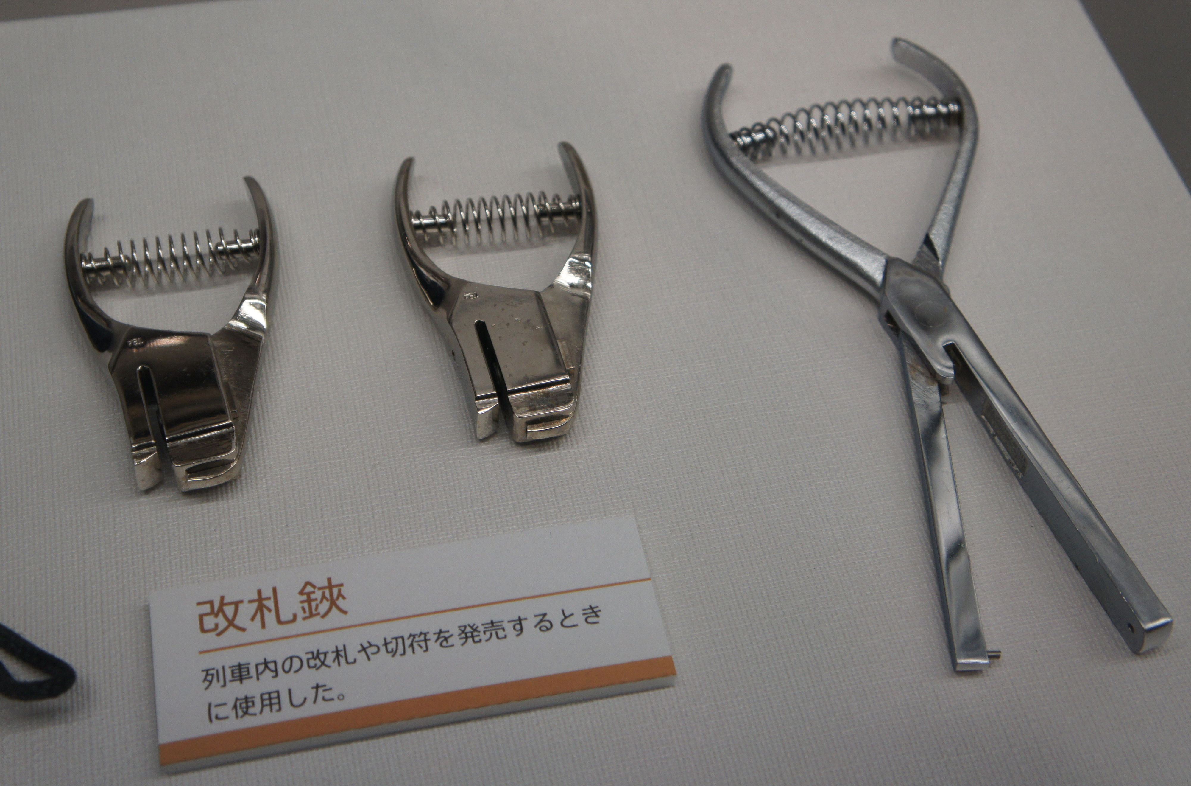 Japanese ticket punches at the SCMaglev and Railway Park museum in Nagoya, Japan